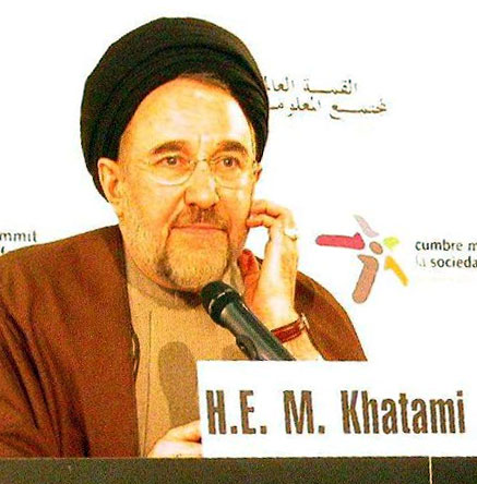 Former Iranian President Mohammad Khatami at WSIS Press Confrence (12-2003)